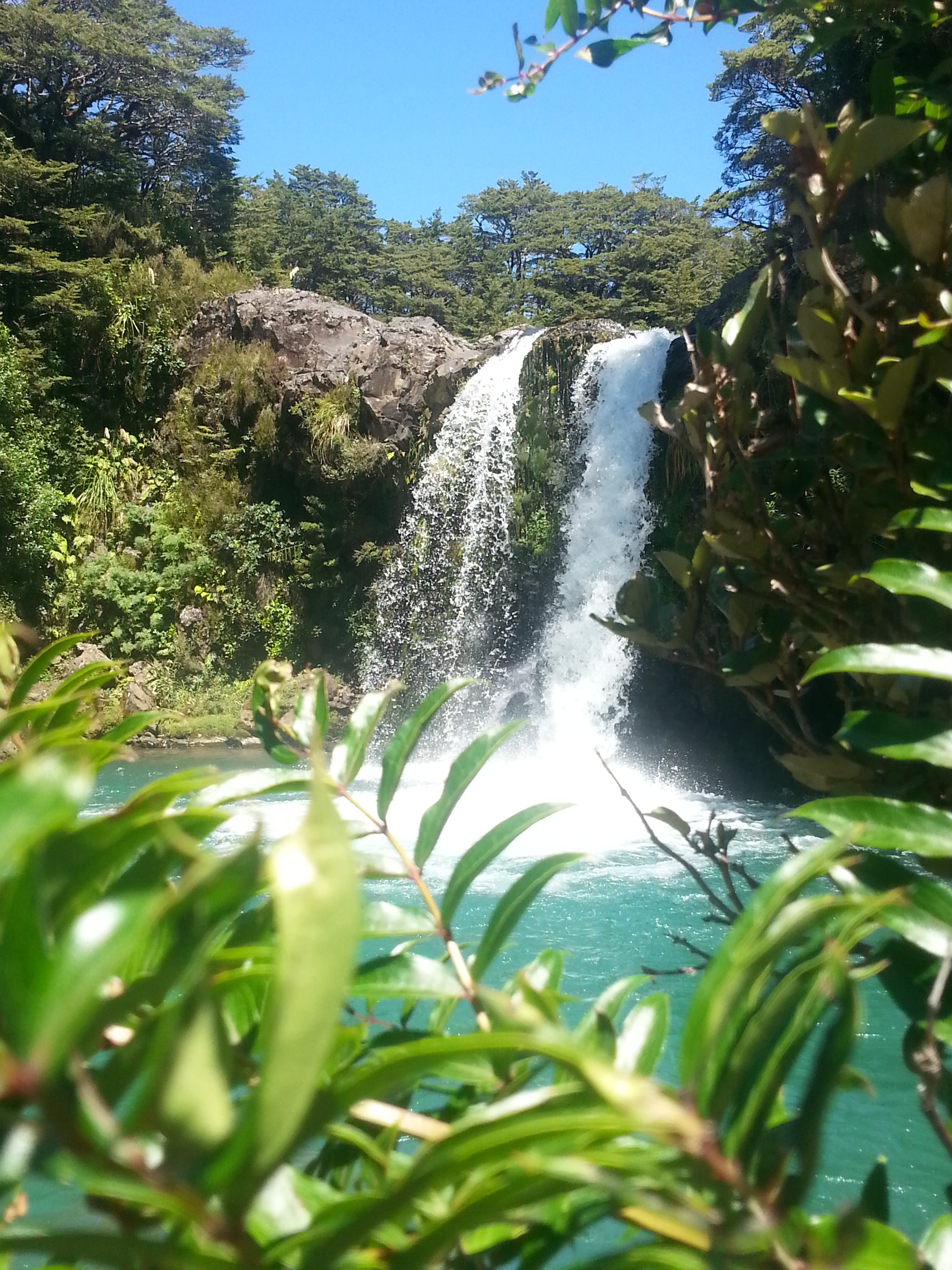 Tawhai Falls, Jan 2014